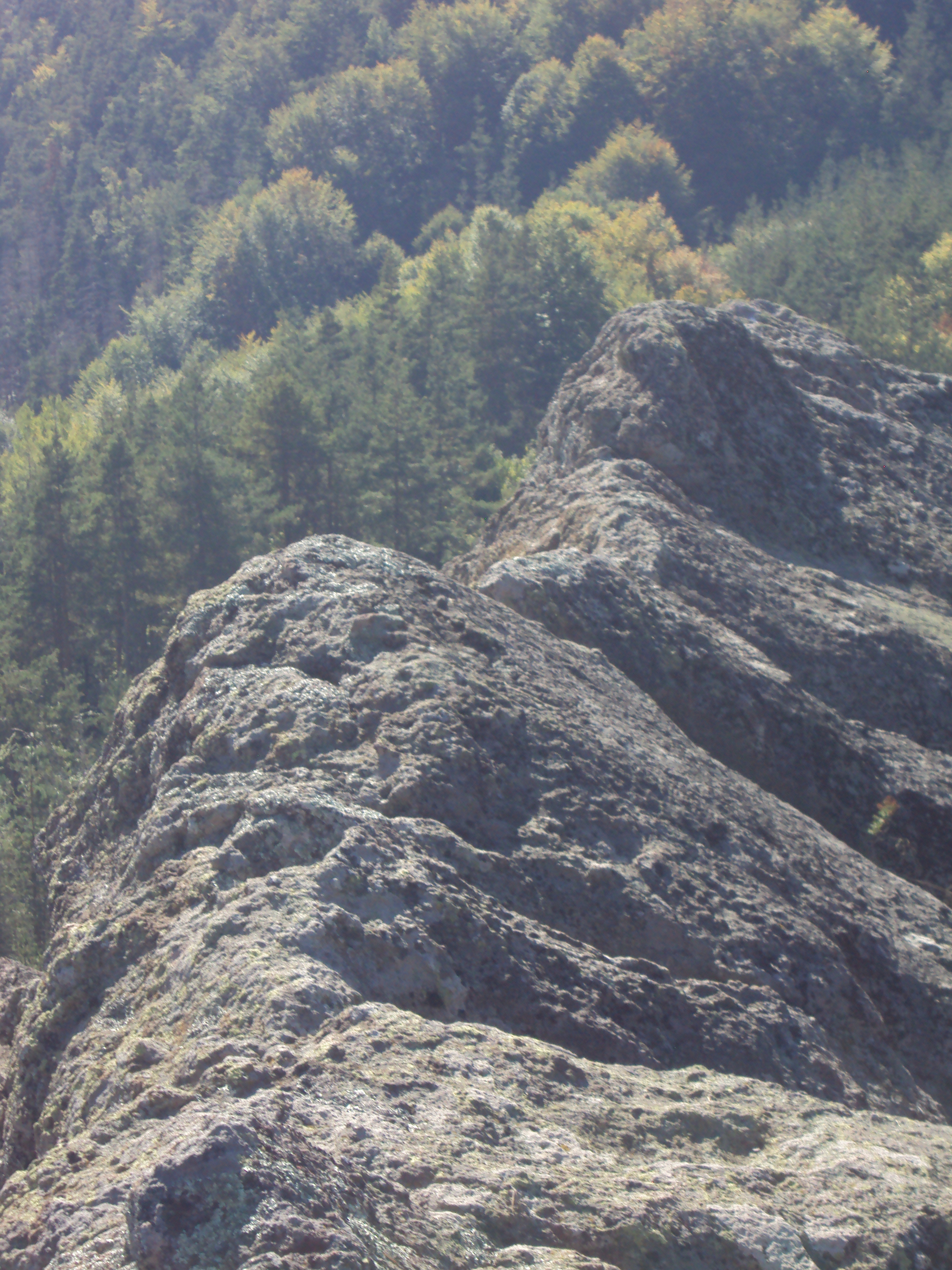 In kaya